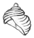 Drawing of lateral view of a shell of Cremnoconchus syhadrensis